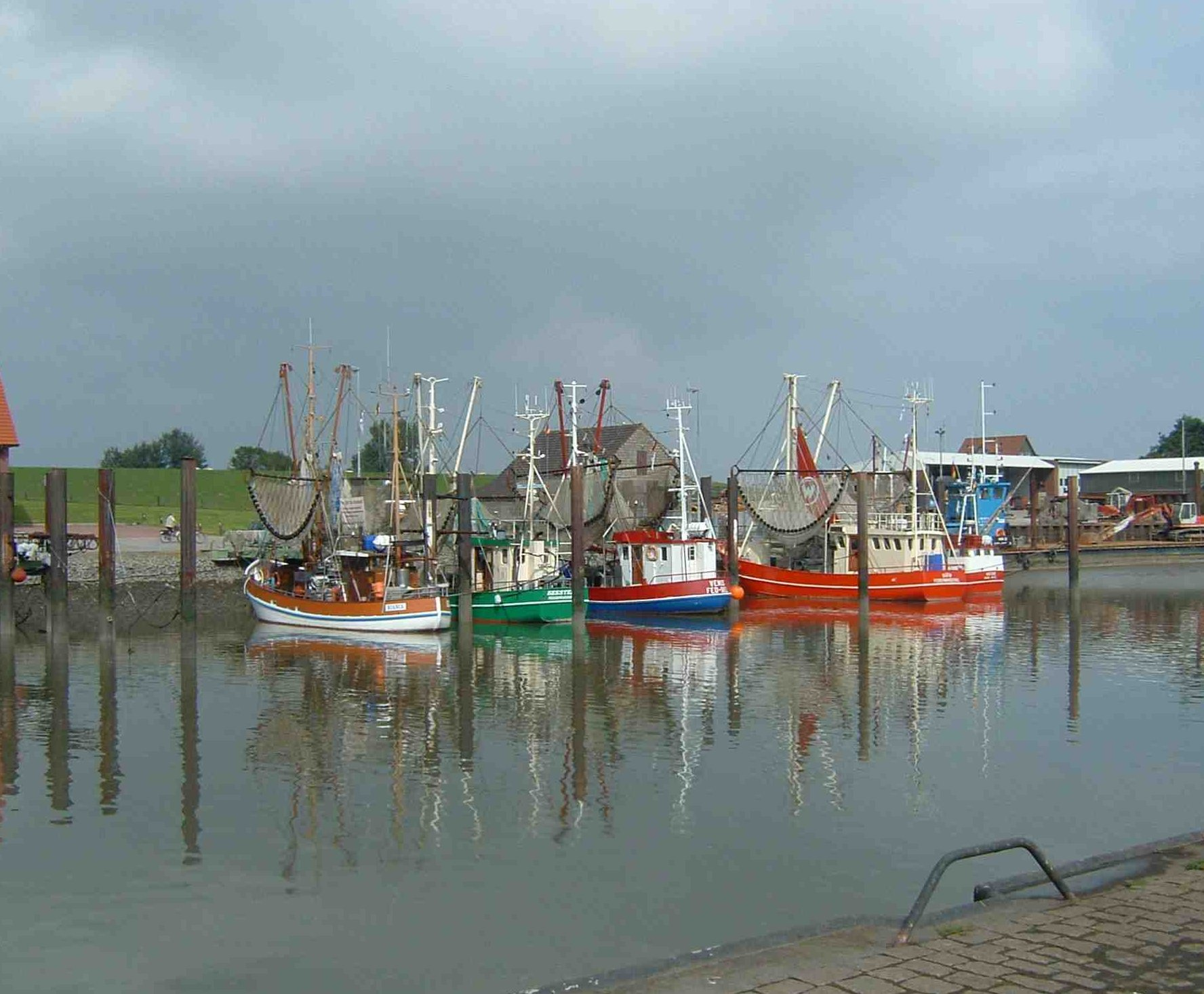 Fishing Boats in the Harbour of Fedderwardersiel